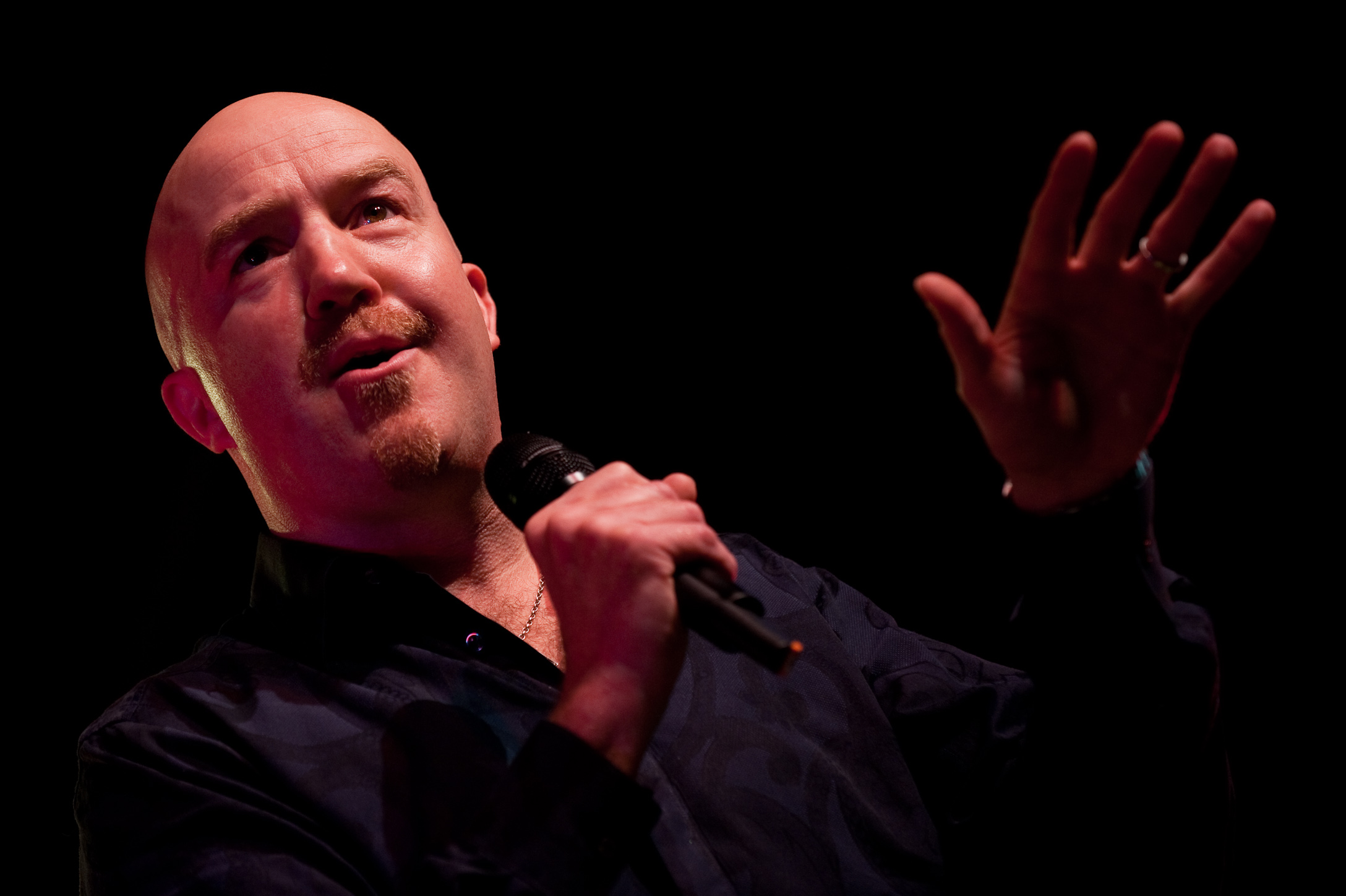 Andy Parsons performing at the Glastonbury Festival 2013